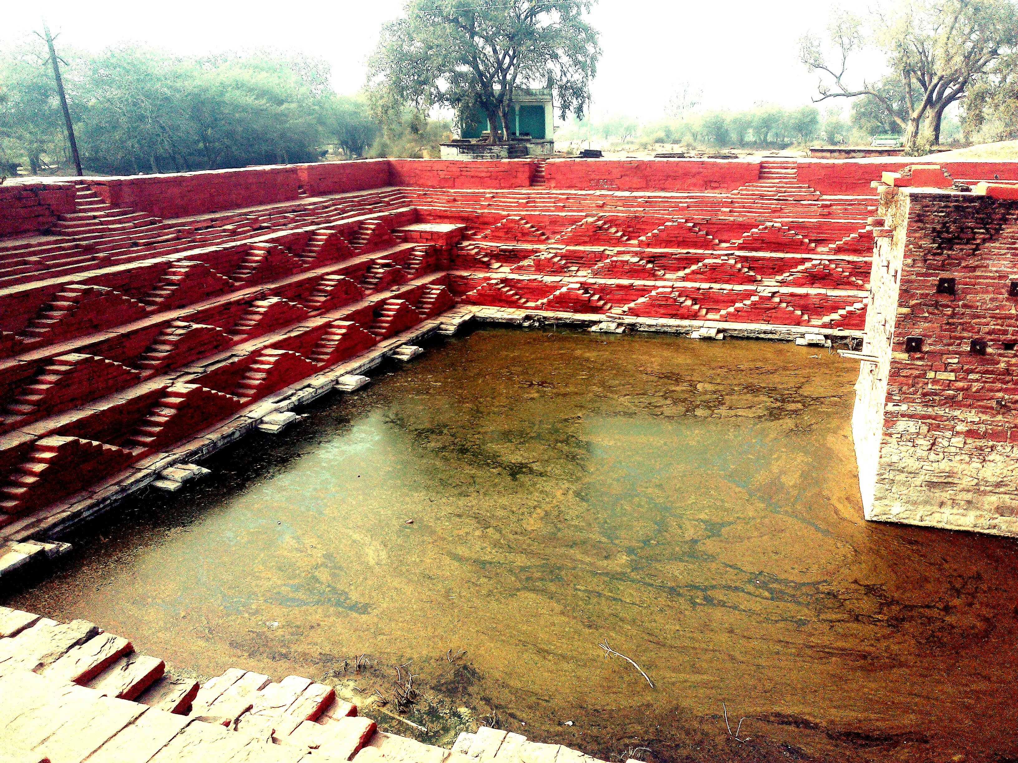 A beautiful picture of Jachcha ki baori